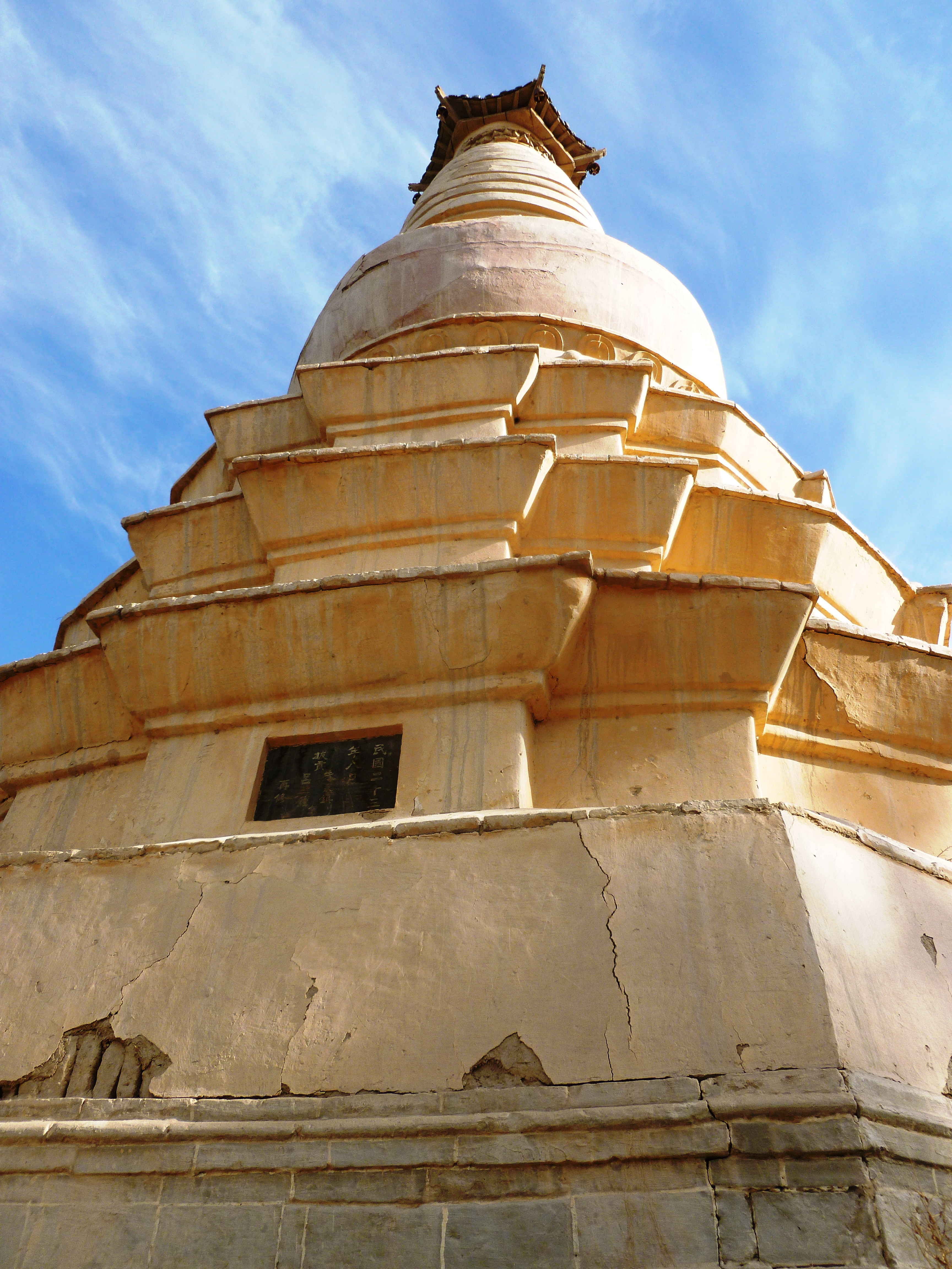 I took this photo to show the construction when I visited the site in June, 2011